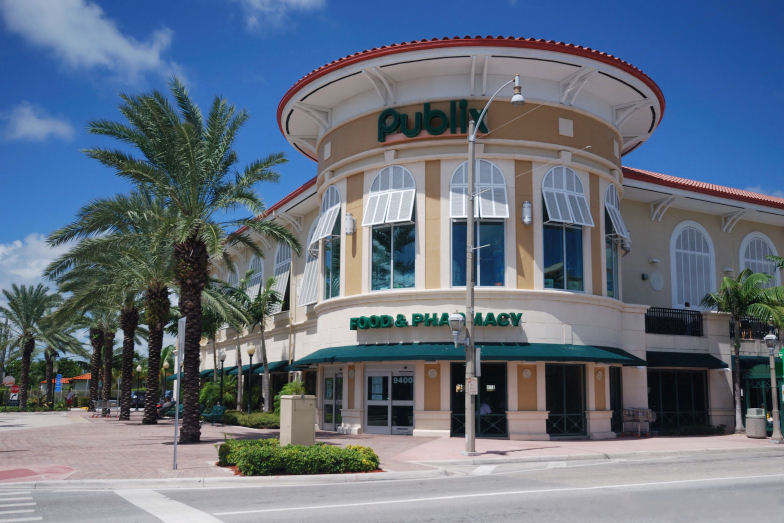 Publix on Harding Ave., Surfside, Florida